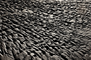 Mud, Mongolia, fot. Elżbieta Dzikowska